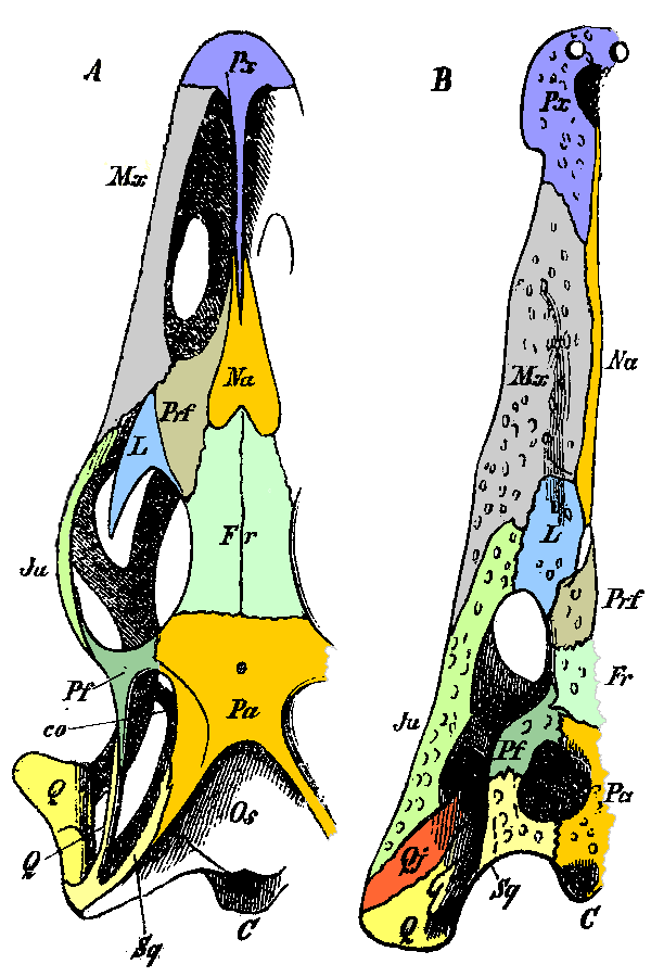 Diagram of the skulls of a Monitor lizard and a Crocodile with homologous bones coloured the same colours.